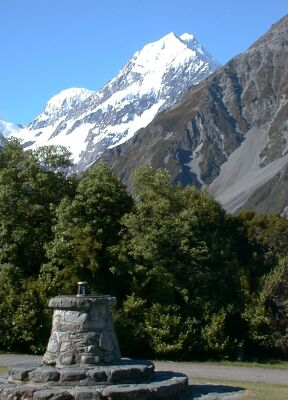 Aoraki/Mount Cook viewed from The Hermitage